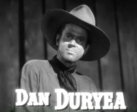 Cropped screenshot of Dan Duryea from the trailer for the film Along Came Jones